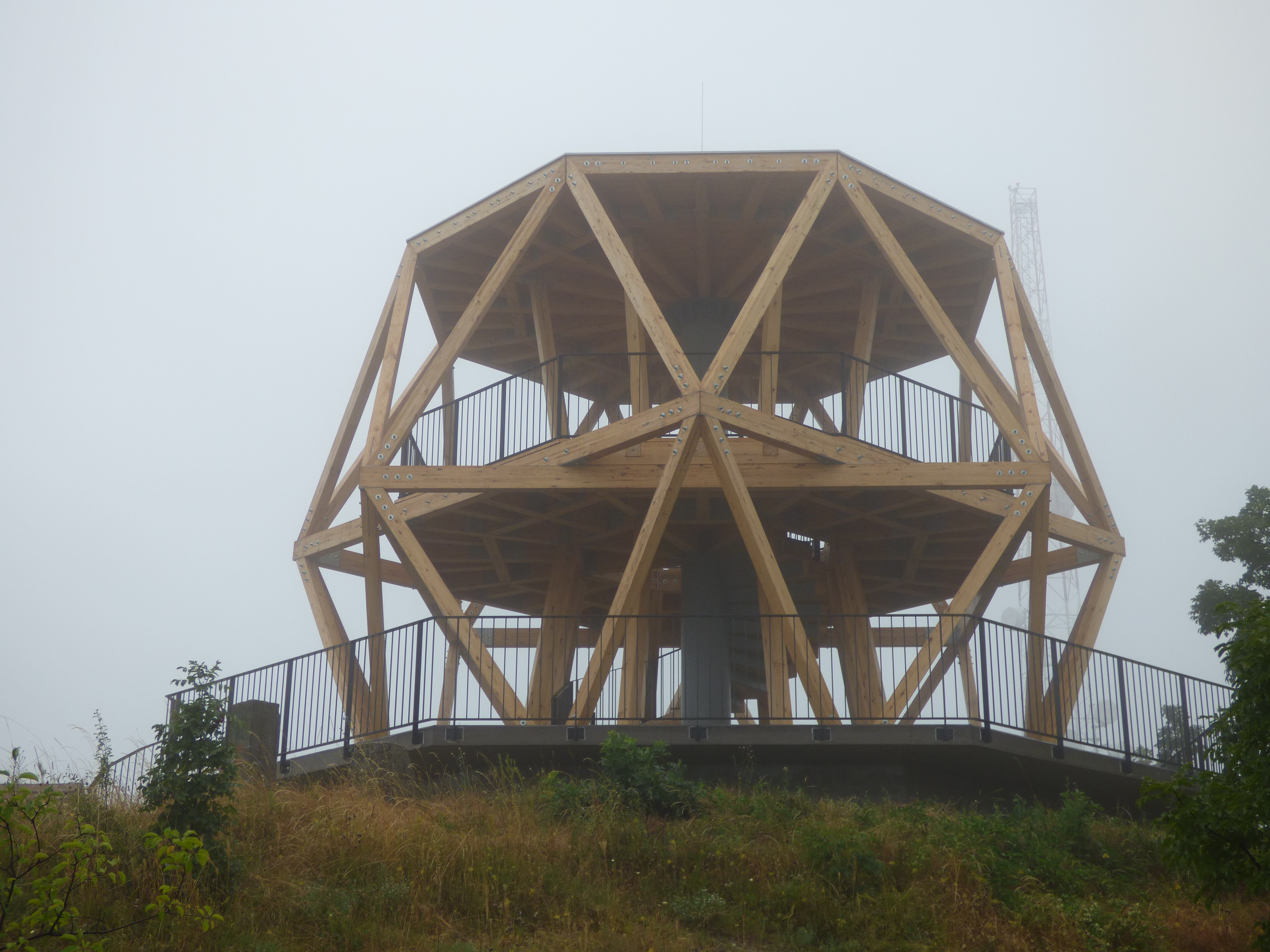 Guckler Károly-kilátó az avatása előtt